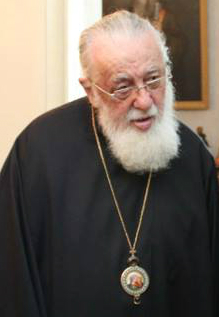 Patriarch Ilia II of Georgia